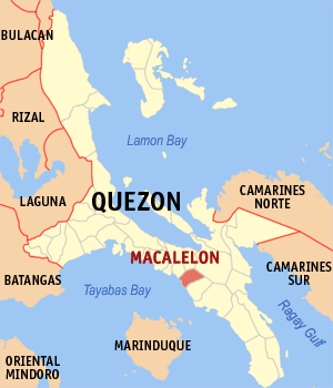 Map of Quezon showing the location of Macalelon